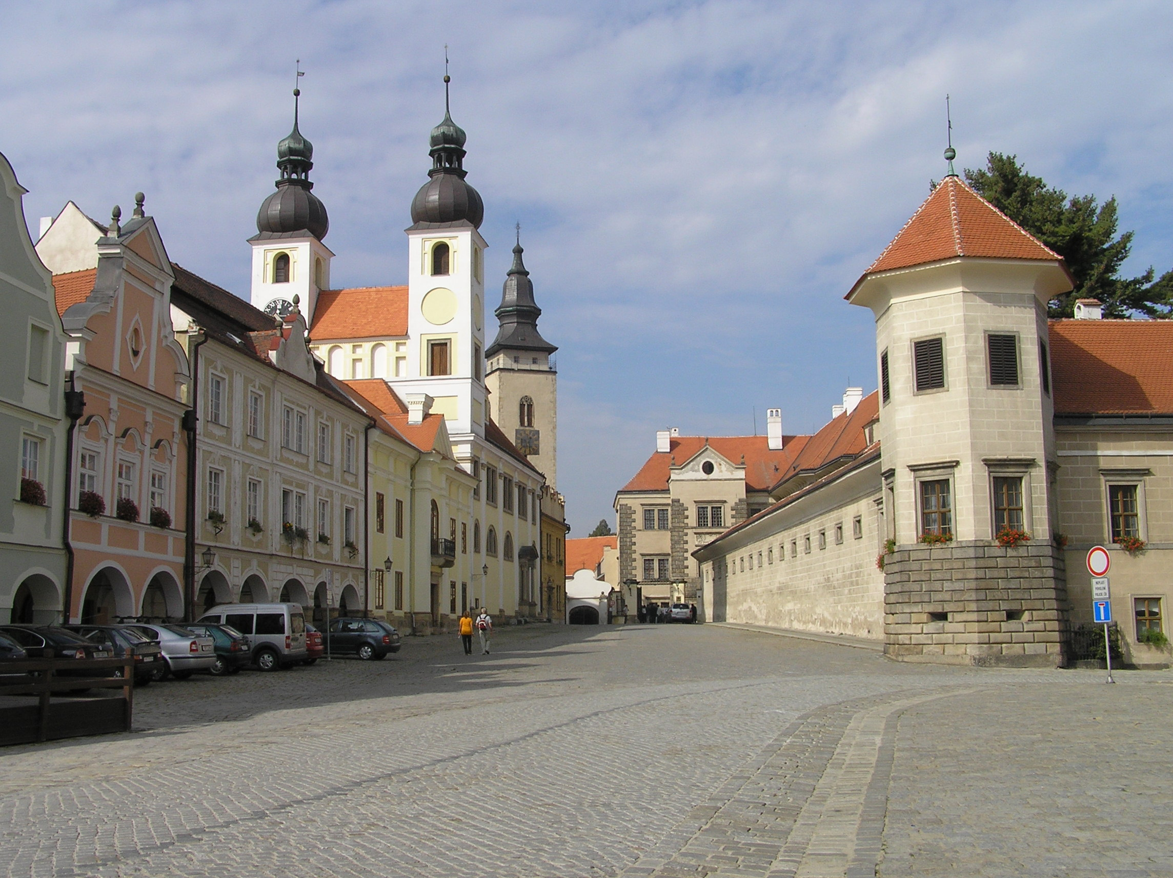 Náměstí Zachariáše z Hradce, the main square of Telč, Moravia, Vysočina Region, Czech Republic.